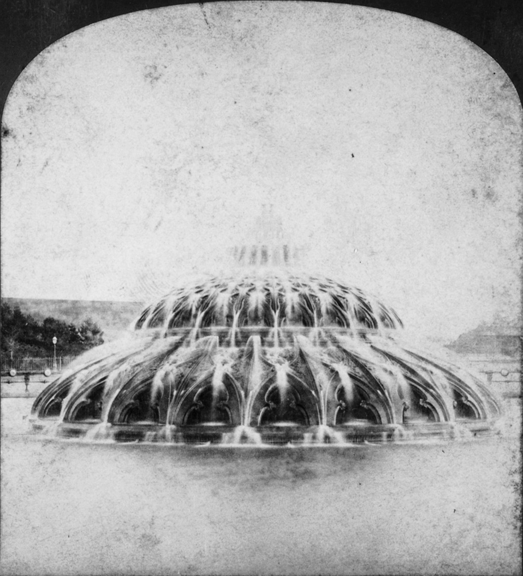 The Plaza Fountain, Calvert Vaux, architect, Grand Army Plaza